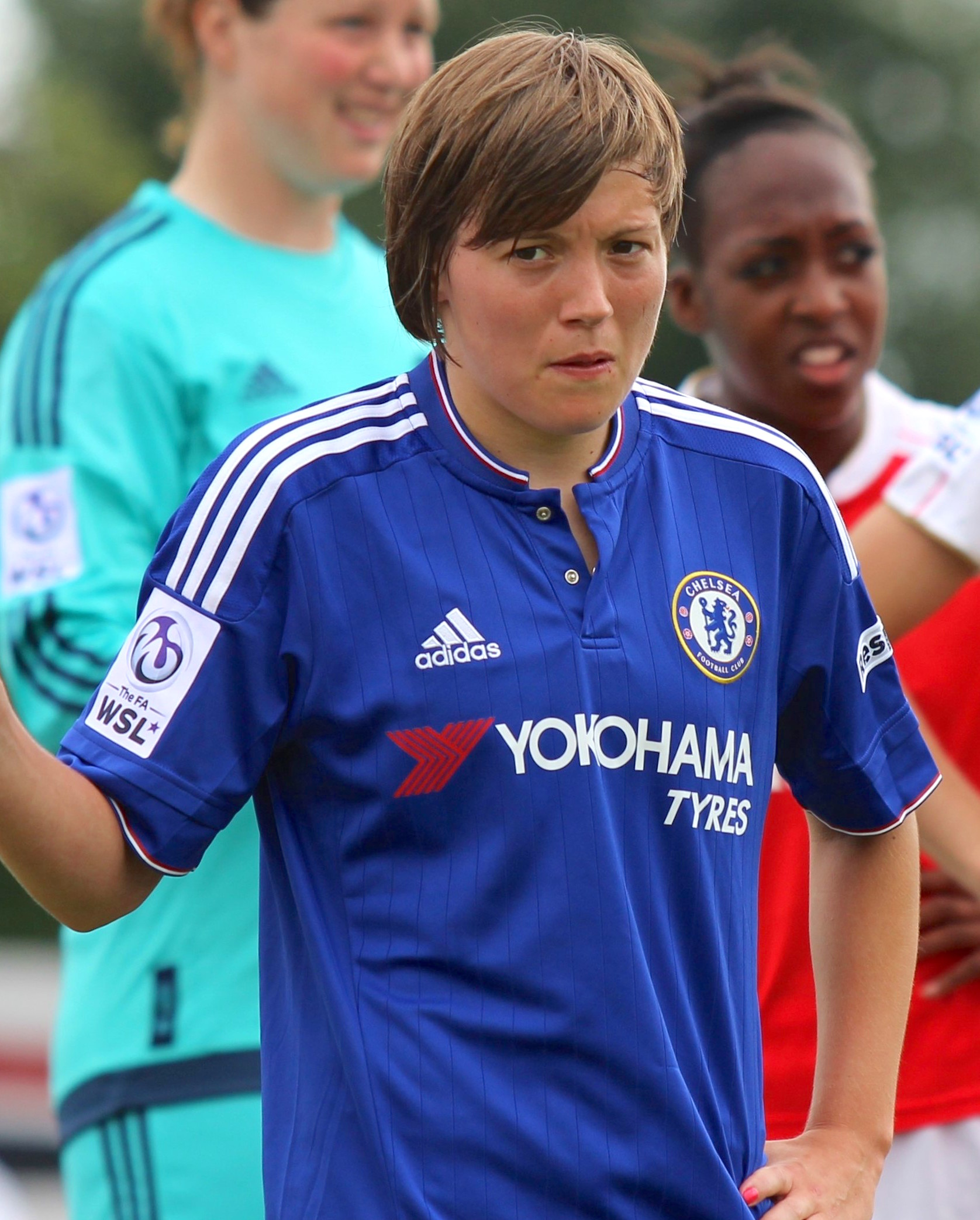 Fran Kirby of Chelsea Ladies prepares to defend a corner during the game against Arsenal.